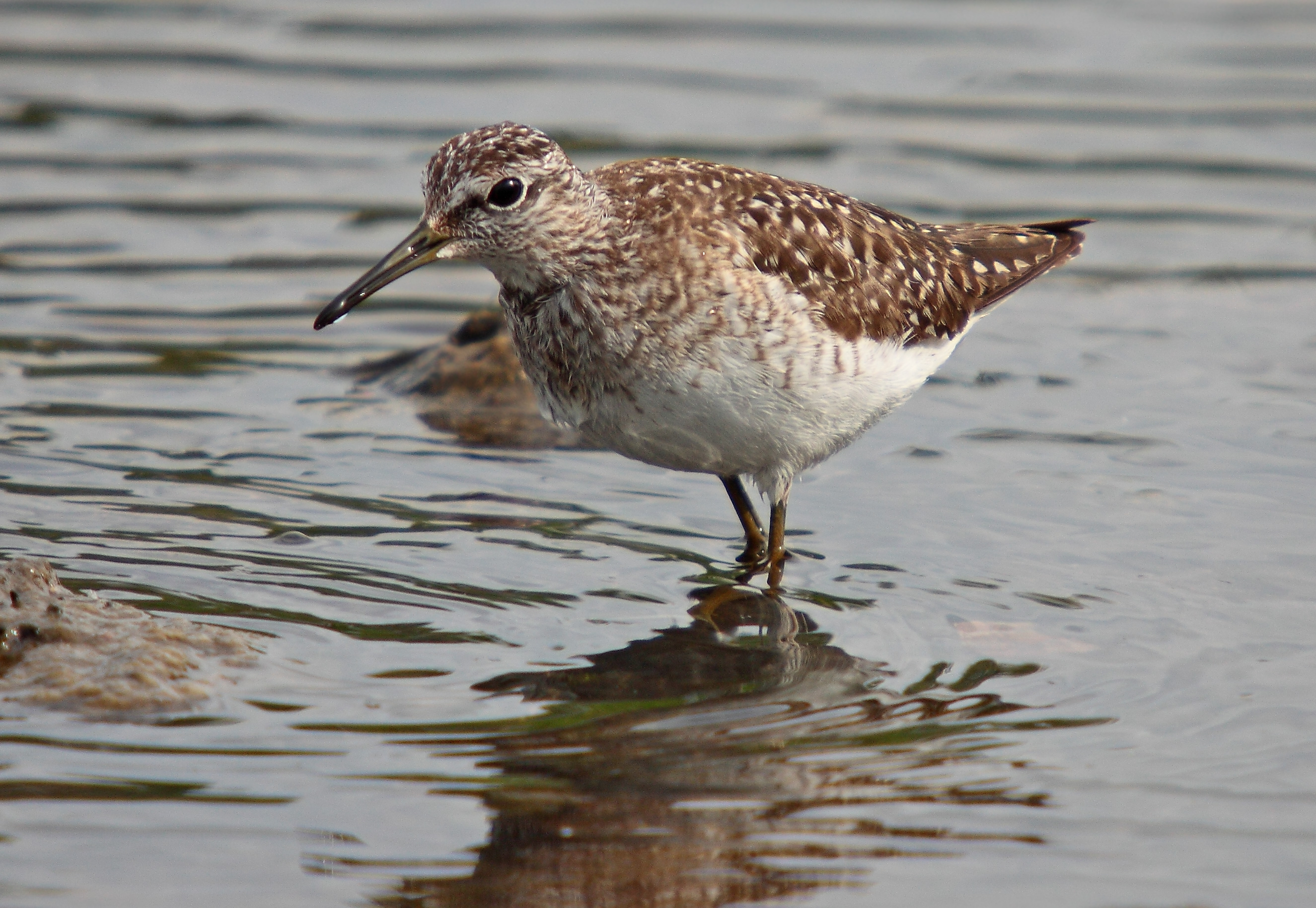 Wood sandpiper at the lower ford on Kalloni east river, Lesvos, Greece